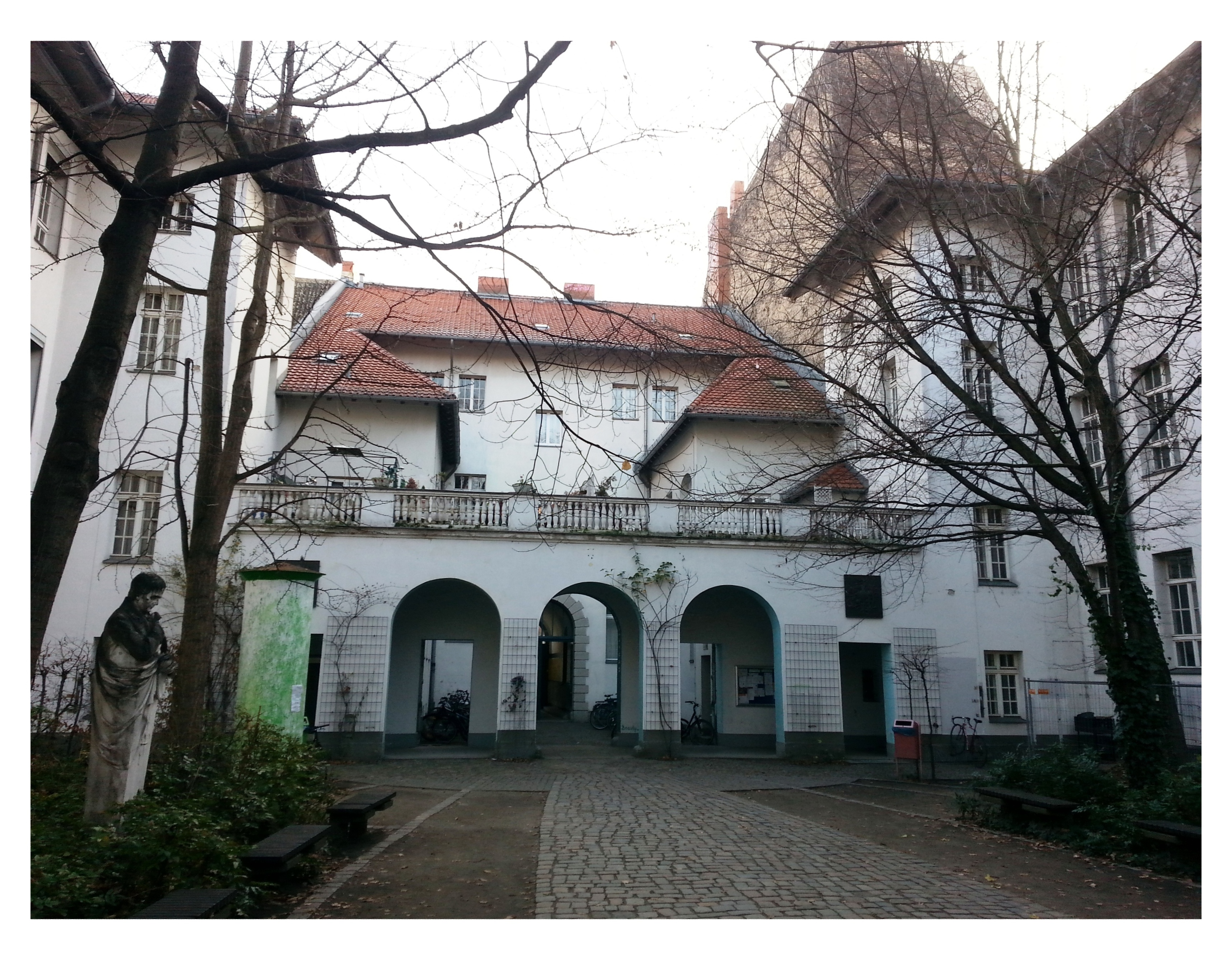 Leibniz Grammar School in Berlin - building with thoroughfare towards Schleiermacherstr